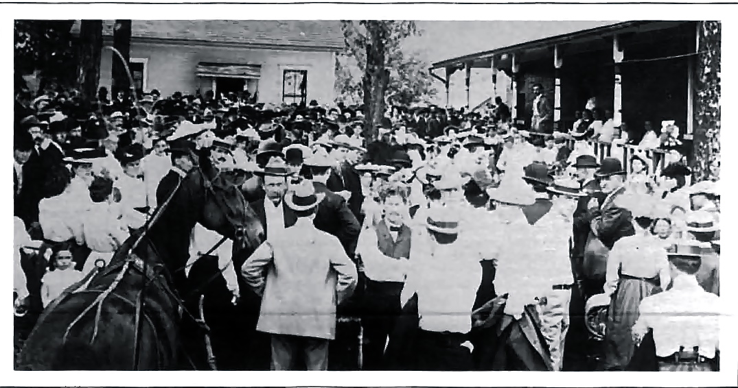 Photograph of the Spirit Fruit Society's "Open House" in Lisbon, Ohio, June 26, 1904